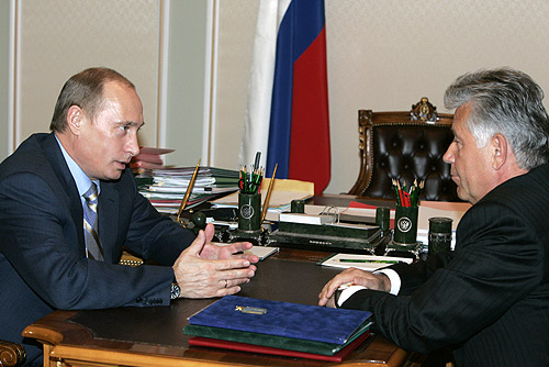 President Vladimir Putin with Saratov Region Governor Pavel Ipatov.